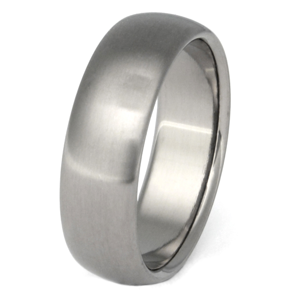 Unadorned Titanium Ring